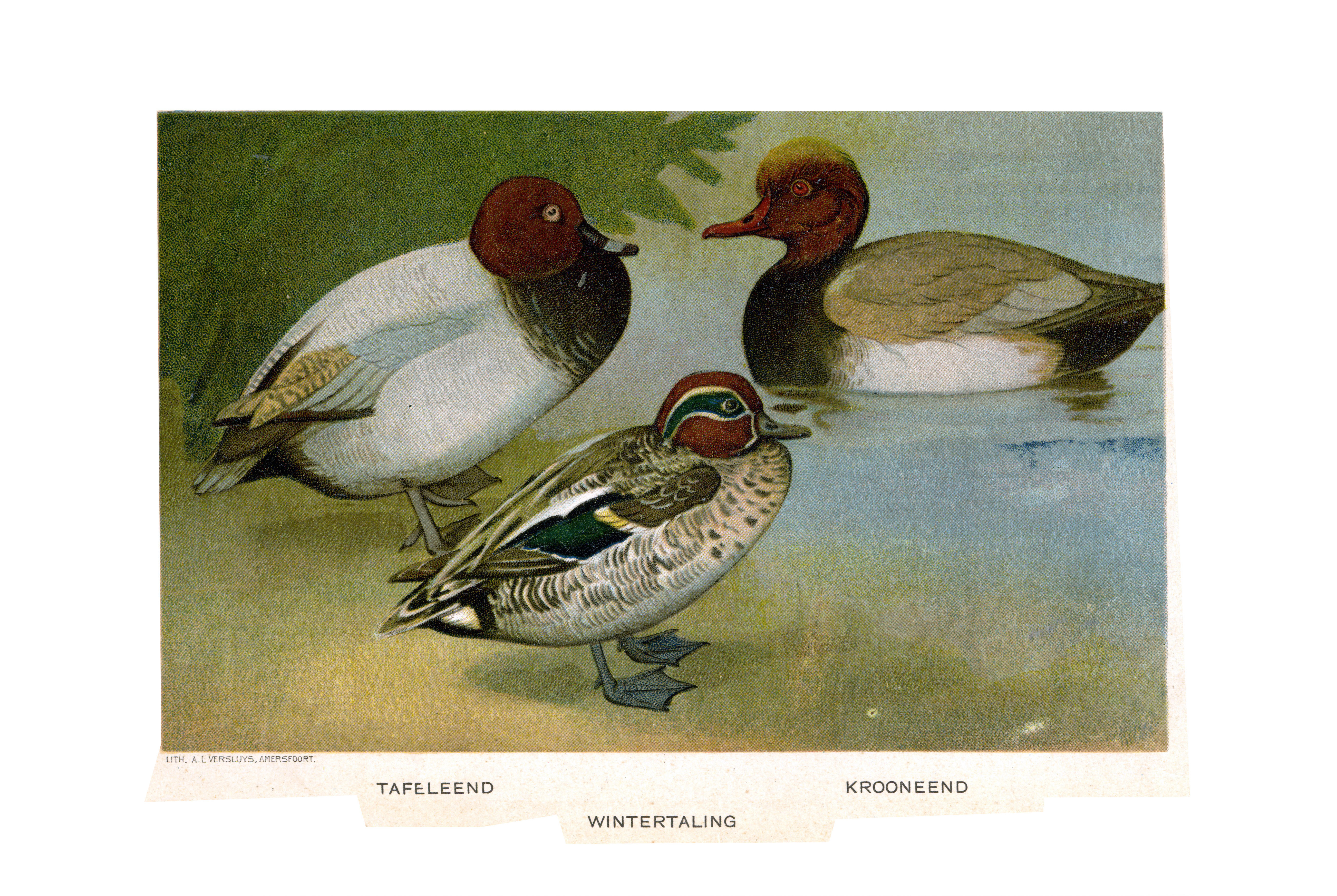 Common pochard, Eurasian teal, Red-crested pochard, Family of Anatidae